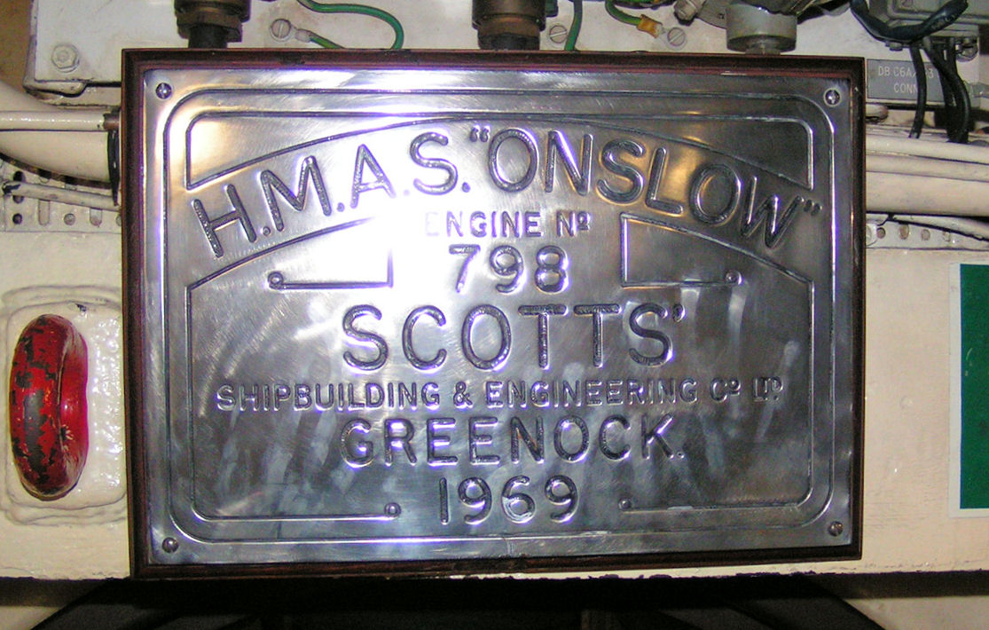 Photograph of maker's nameplate on Australian submarine HMAS Onslow, now at the Australian Maritime Museum, Sydney.